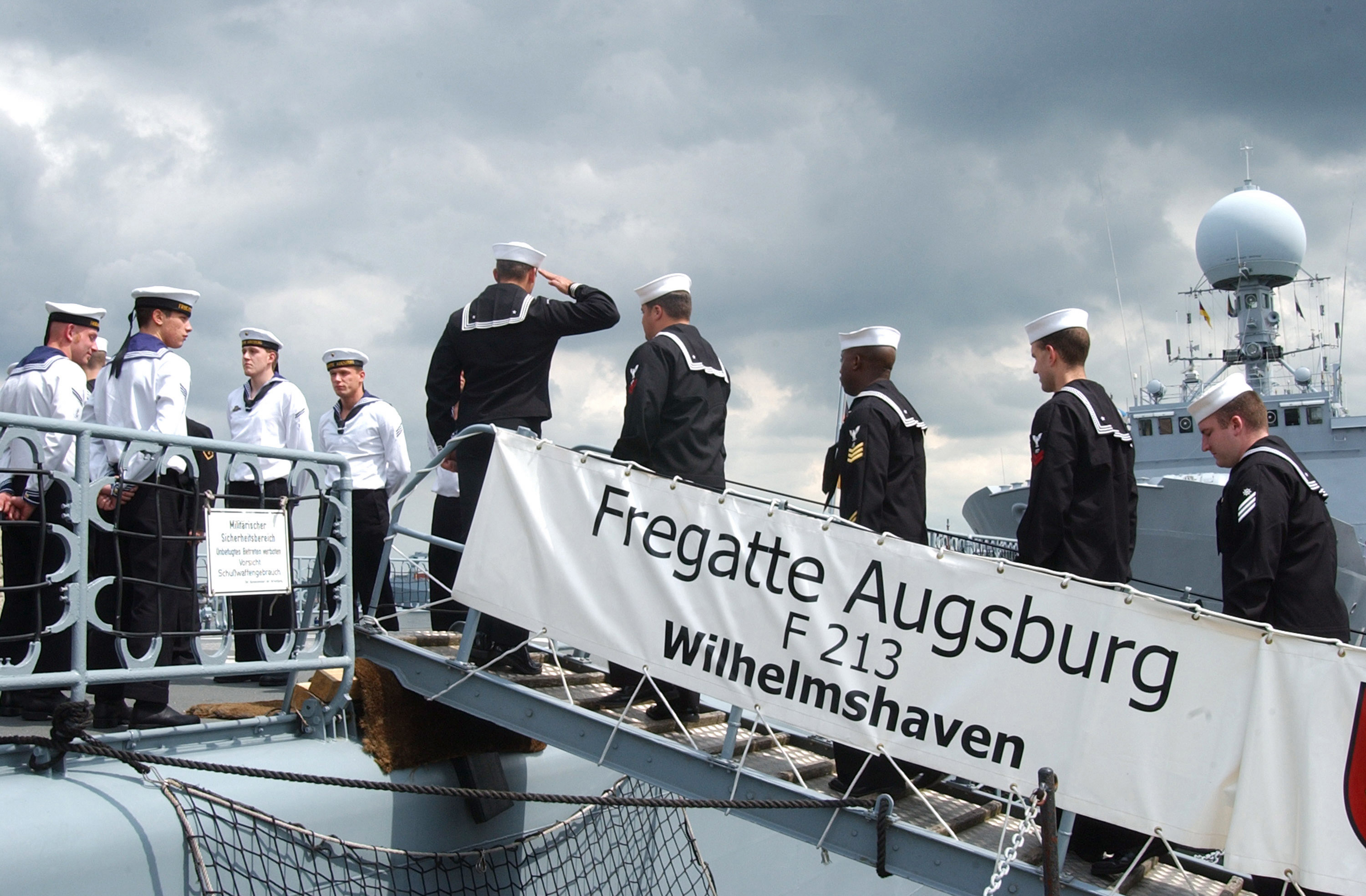 Sailors from the guided missile cruisers USS Cape St. George (CG 71) and USS Anzio (CG 68) visit with sailors from the German Frigate Augsburg (F 213) to watch the World Cup soccer match between their two respective countries. Both ships are in Kiel, Germany for a port visit at the conclusion of BALTOPS 2002. The United States and 11 other nations are participating in this year's exercise. BALTOPS 2002 is intended to improve interoperability between allies and Partnership for Peace countries by conducting a peace support operation at sea including exercises in gunnery, replenishment-at-sea, undersea warfare, radar tracking, mine countermeasures, seamanship, search and rescue, maritime interdiction operations, and scenarios dealing with potentially real world crises.